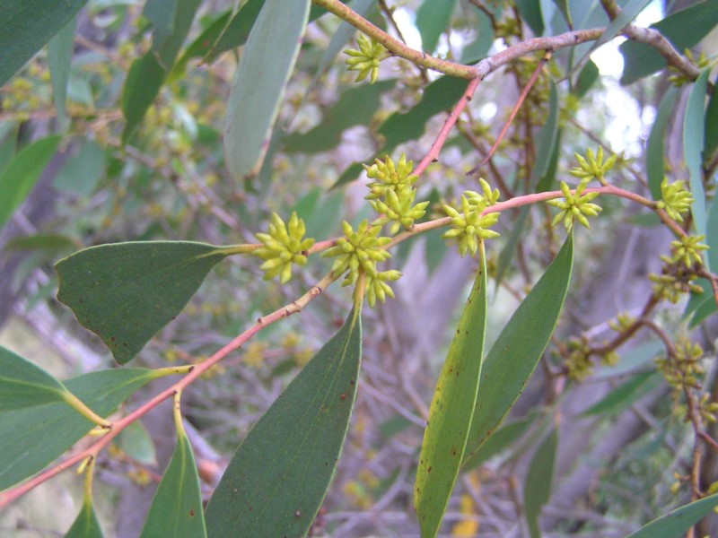 Flower buds of Eucalyptus stellulata near Paddys River, in Tidbinbilla Nature Reserve Australian Capital Territory